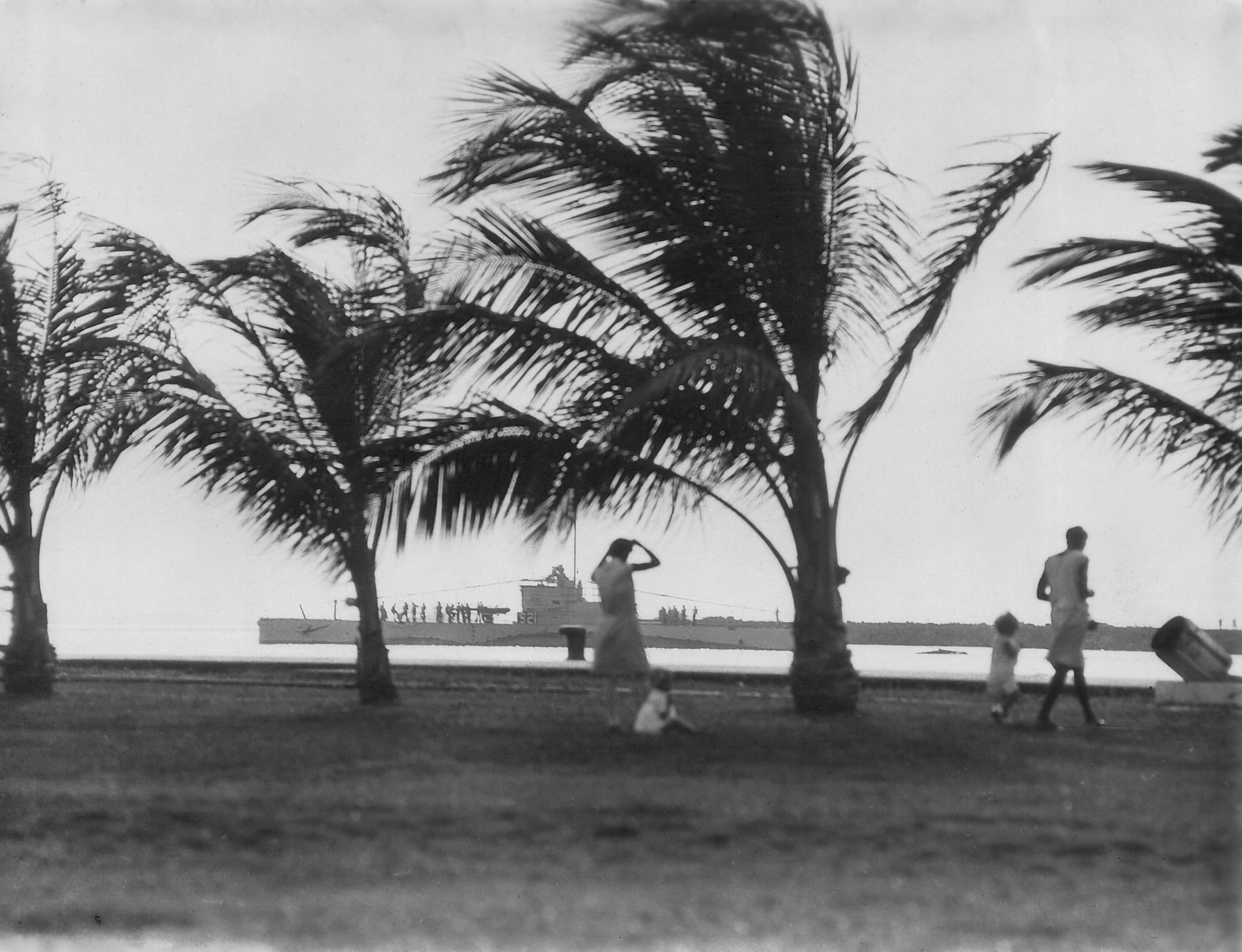 S-21 ca 1927. Coco Solo, Panama C.Z. Caption on back of picture reads "The last of the palms"